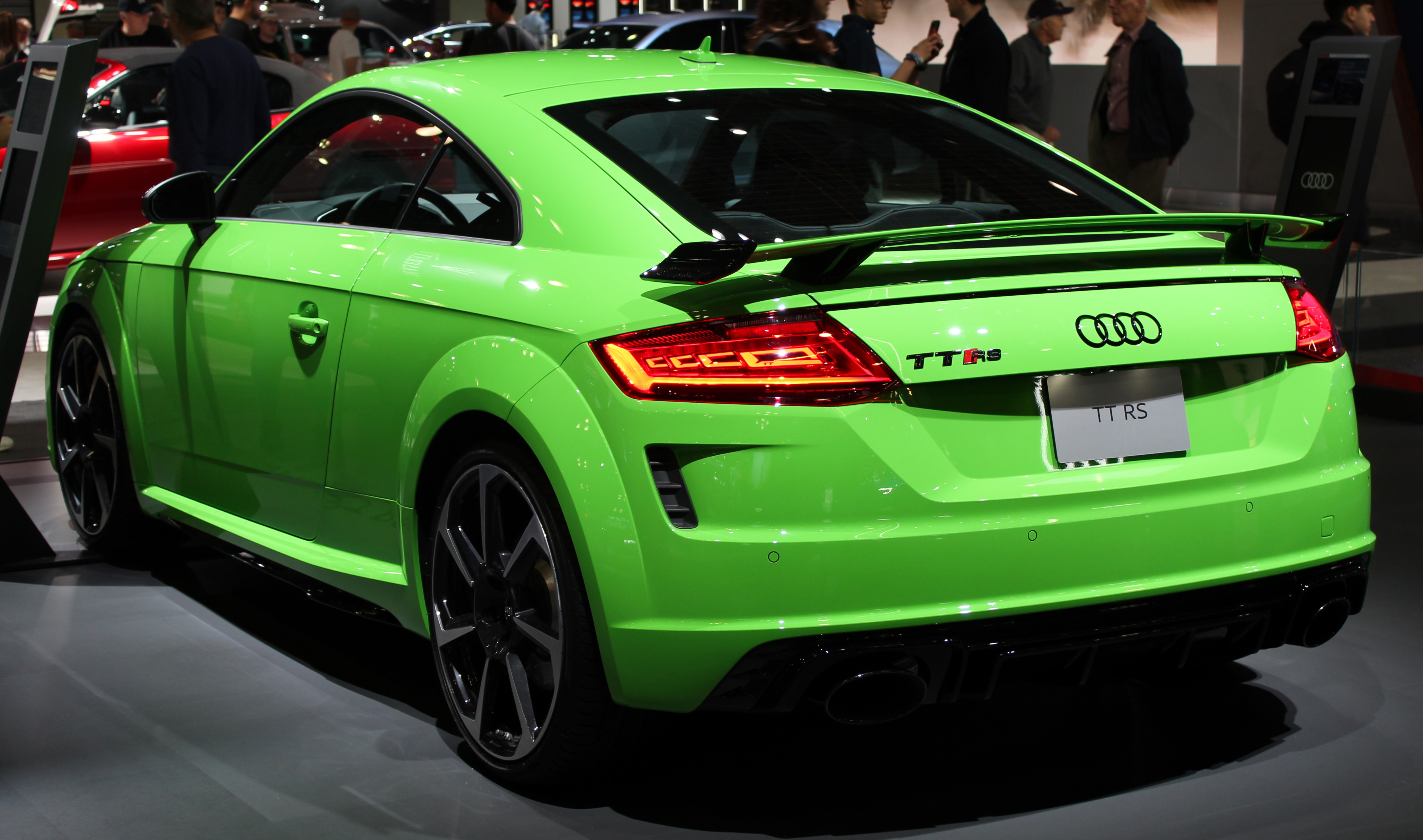 A 2019 Audi TT RS 2.5L TFSi turbocharged five-cylinder, photographed during the 2019 New York International Auto Show, in Hudson Yards, Manhattan, NYC. AWD, fitted with Technical Specifications & the Audi exclusive color, Kyalami Green($3,900)